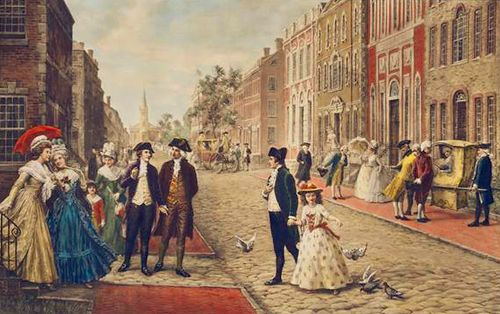 Aaron Burr, Alexander Hamilton and Philip Schuyler strolling on Wall Street, New York 1790